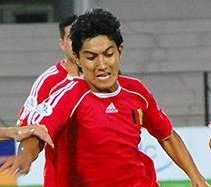 Footballer form Afghanistan